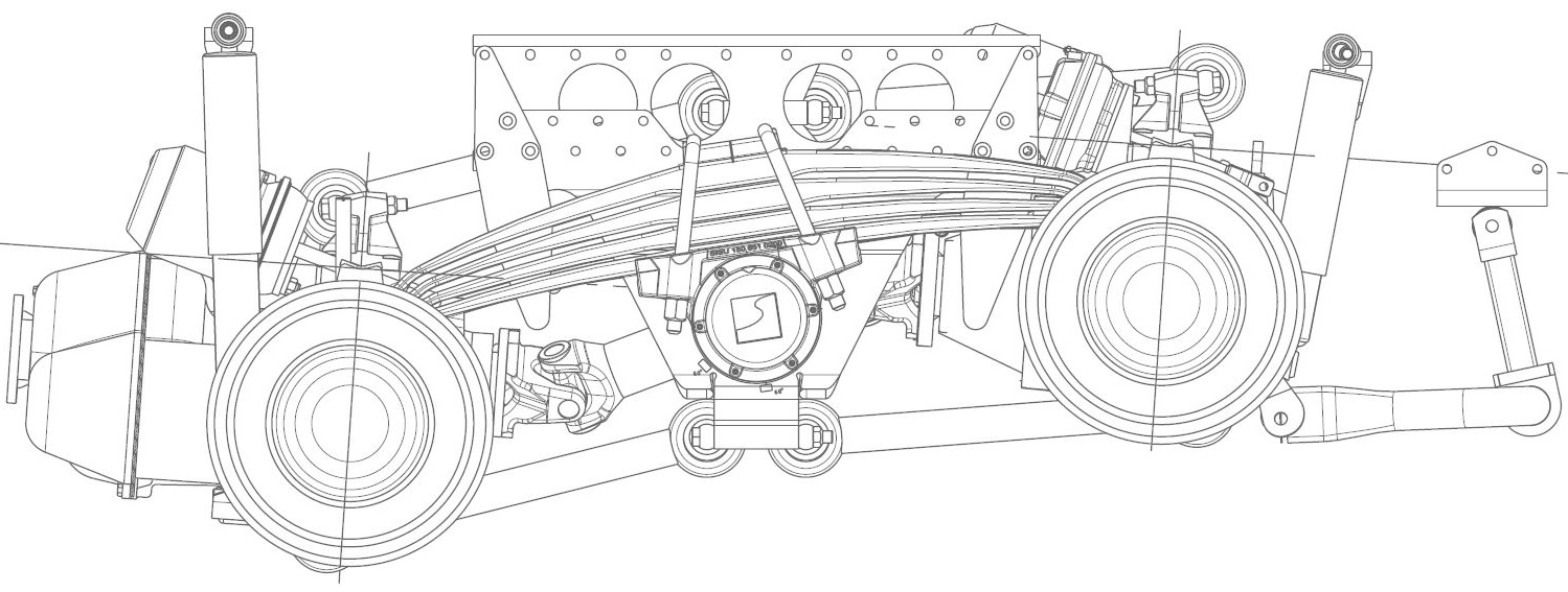 Sisu lifting tandem mechanism (principle originally introduced by Vanajan Autotehdas).